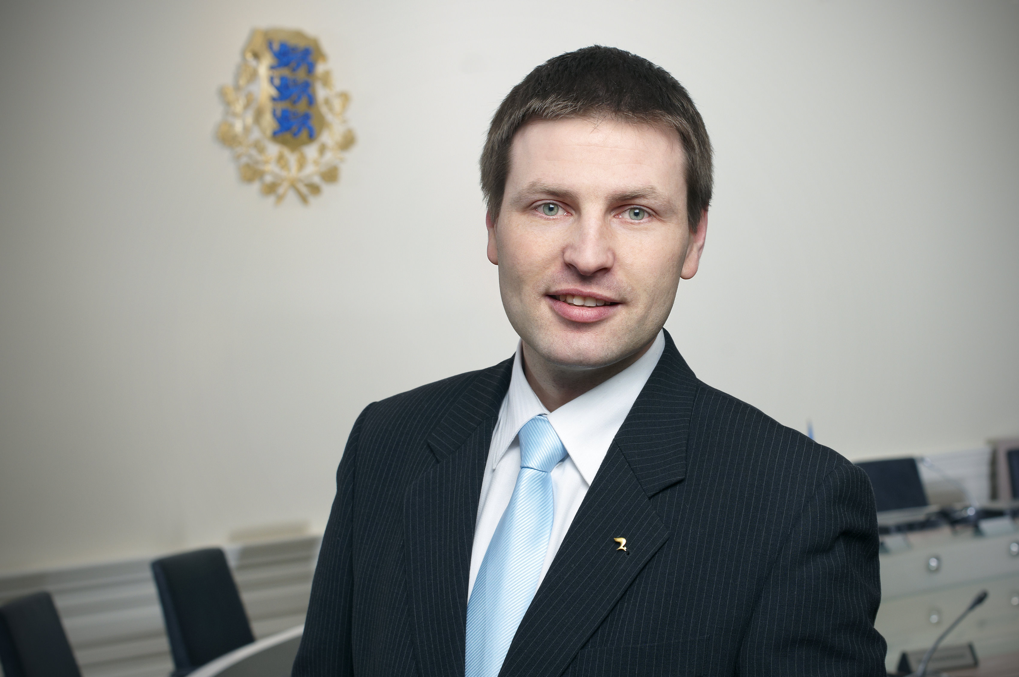 Hanno Pevkur